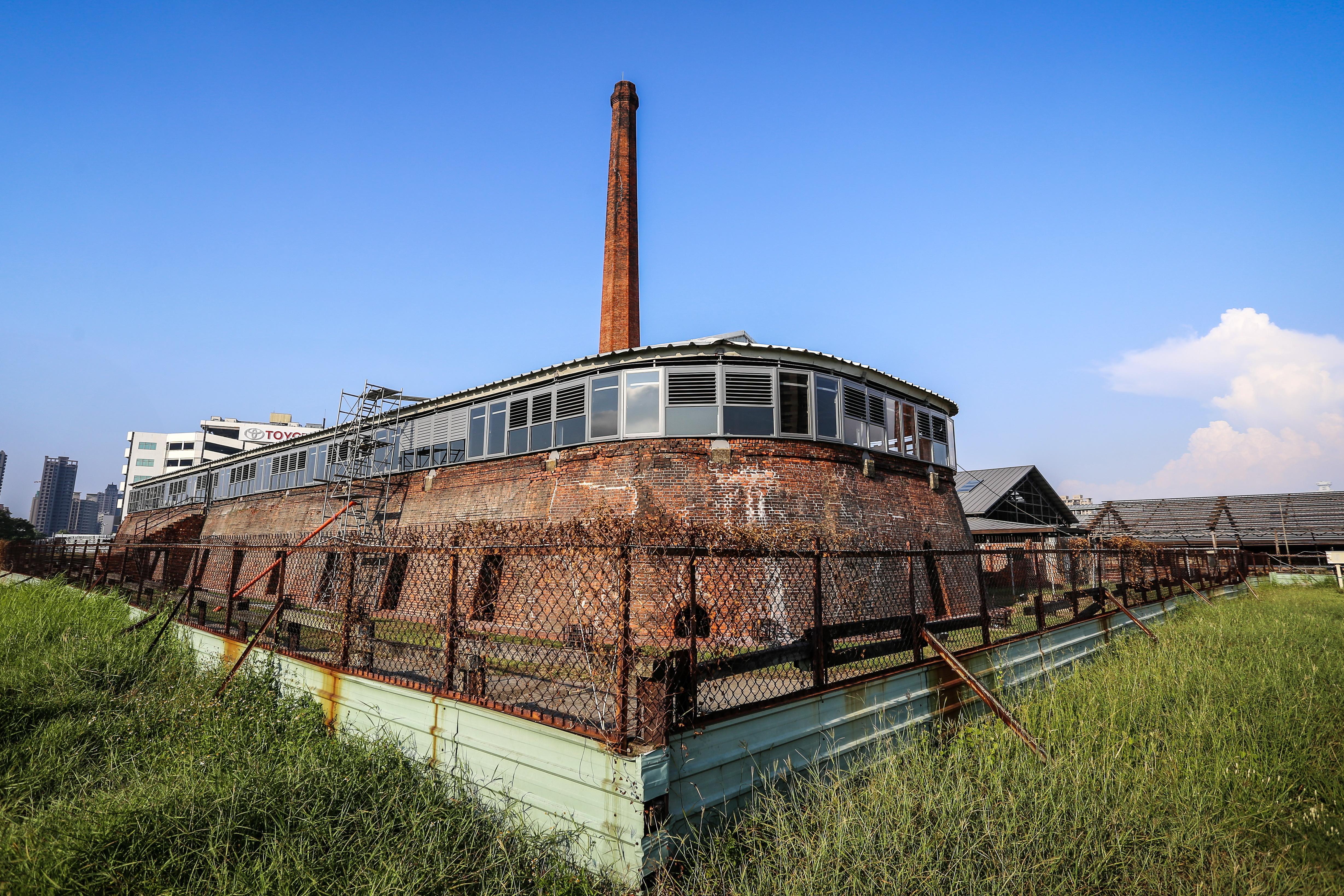 The south west corner of the Former Tangrong Brick Kiln, Sanmin District, Kaohsiung City, Taiwan. (the direction indicated on the file title is incorrect)